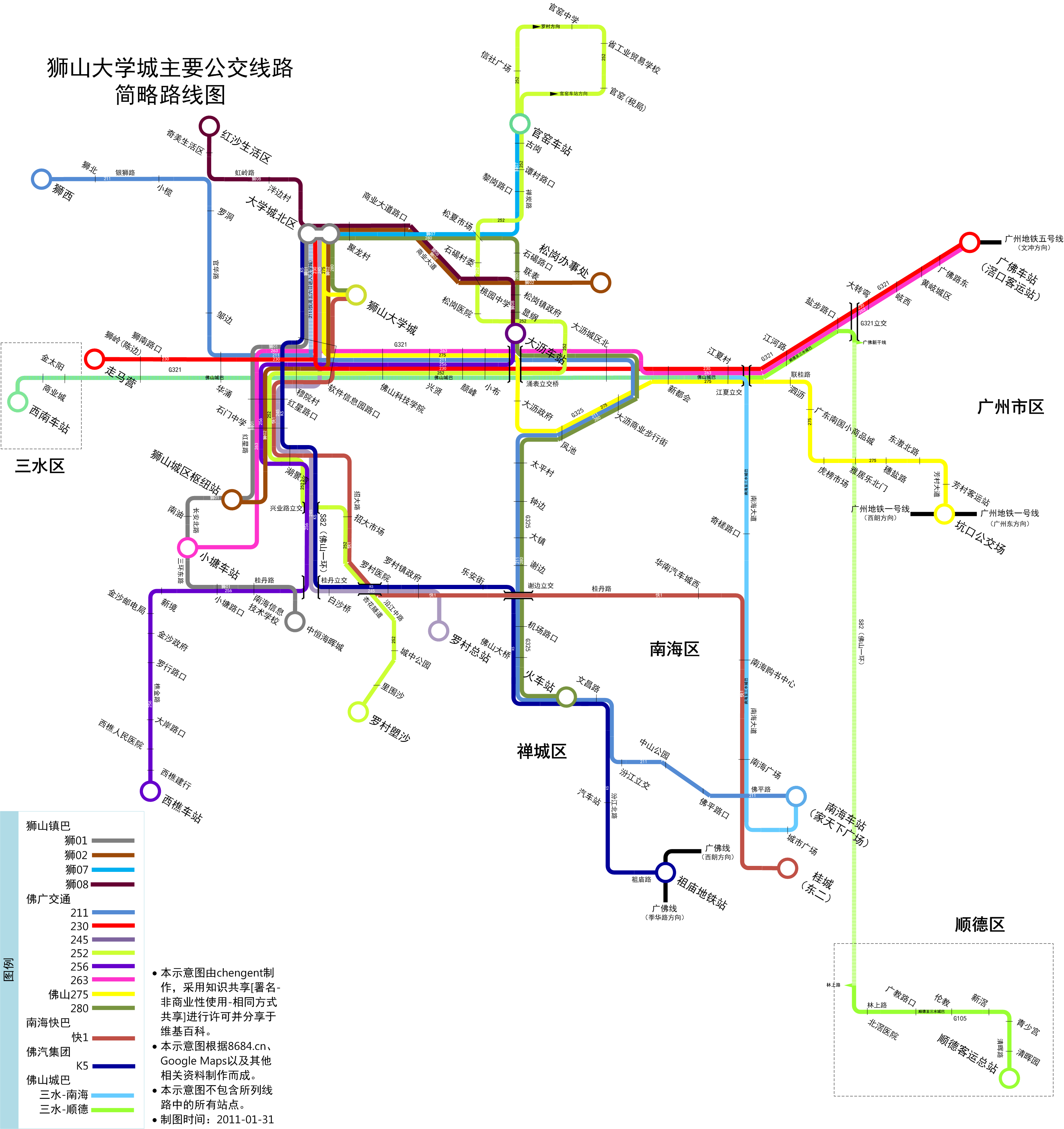 The Map for Busline of Shishan High Education Mega Center